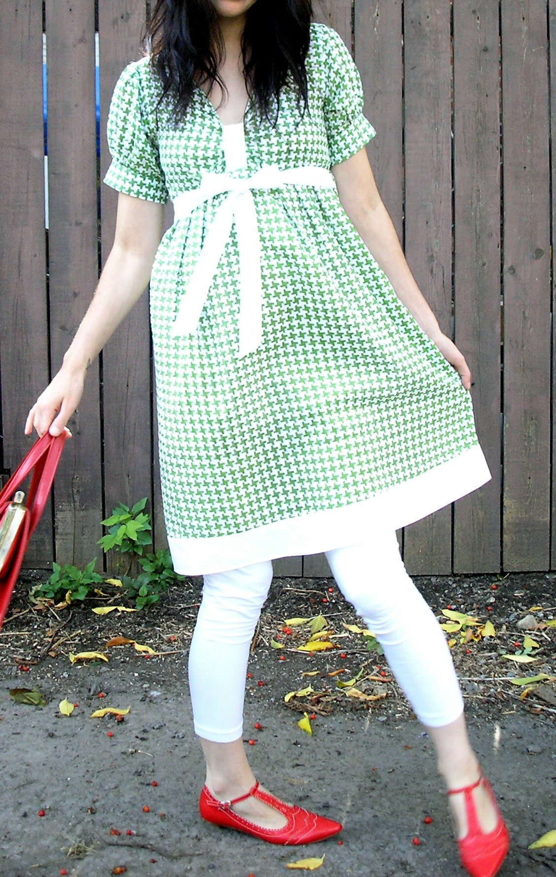 girl wearing leggings photo cropped from flickr photo by lebonbonmulticolore